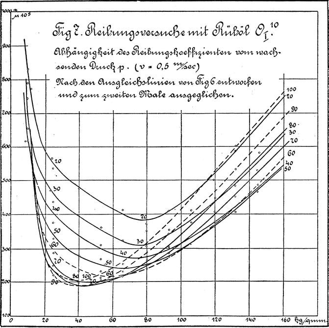 Typical “Stribeck” curves obtained by Martens showing coefficient of friction as a function of pressure in kgf/cm² (even if it looks like kg/mm²) at v = 0.5 m/s using water quenched, hardened steel shaft 99.6 mm diameter and 70.2 mm long, running in bearing shell made from “Rotguß” (red brass, a Cu-Sn-Zn cast alloy) with “Rüböl” (rape oil). The parameter lines represent temperature in °C.